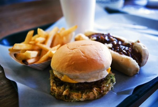 A picture of HDD's food